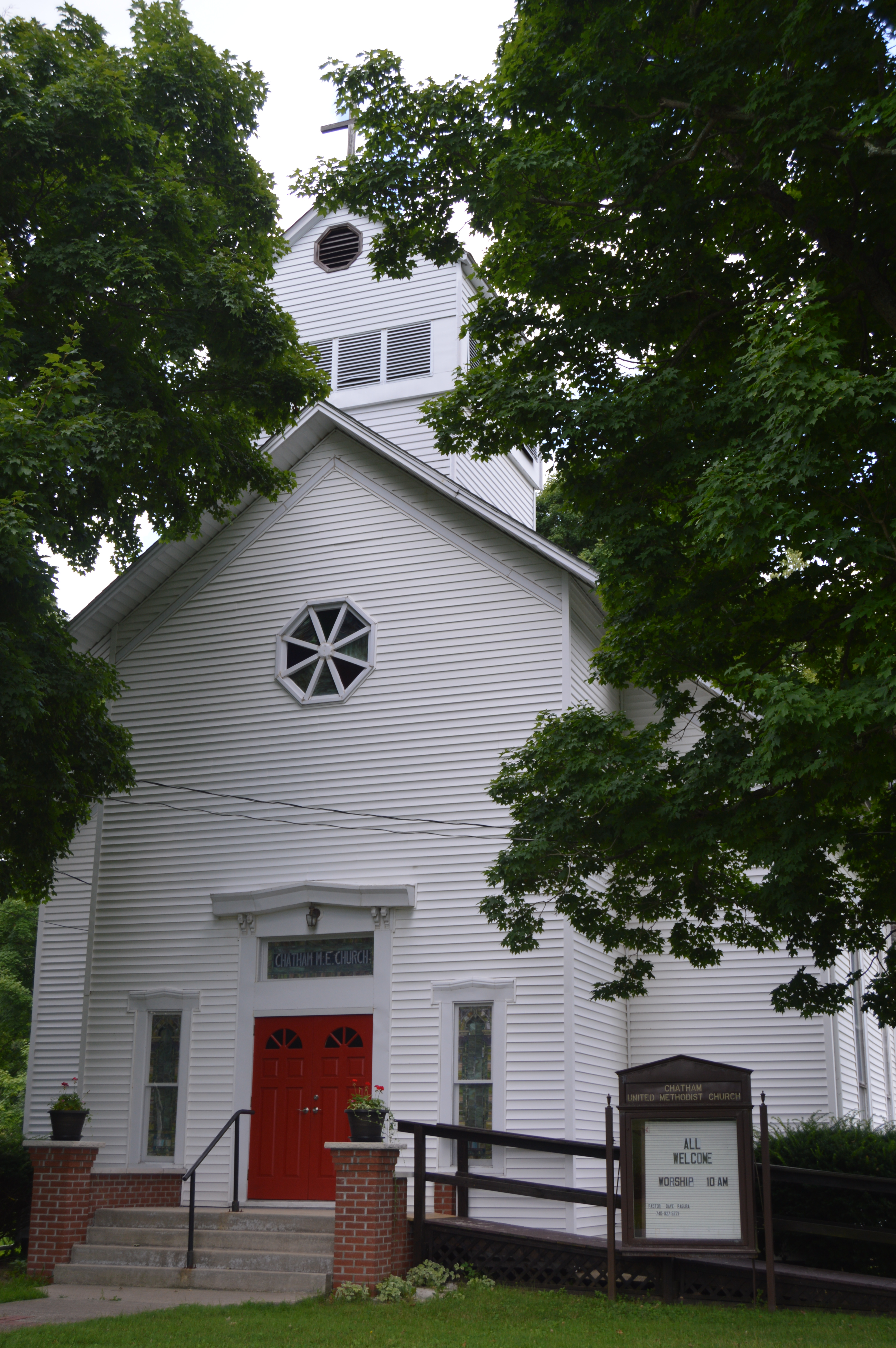 Front of Chatham United Methodist Church, located at 7350 Preston Road at Chatham in western Newton Township, Licking County, Ohio, United States.